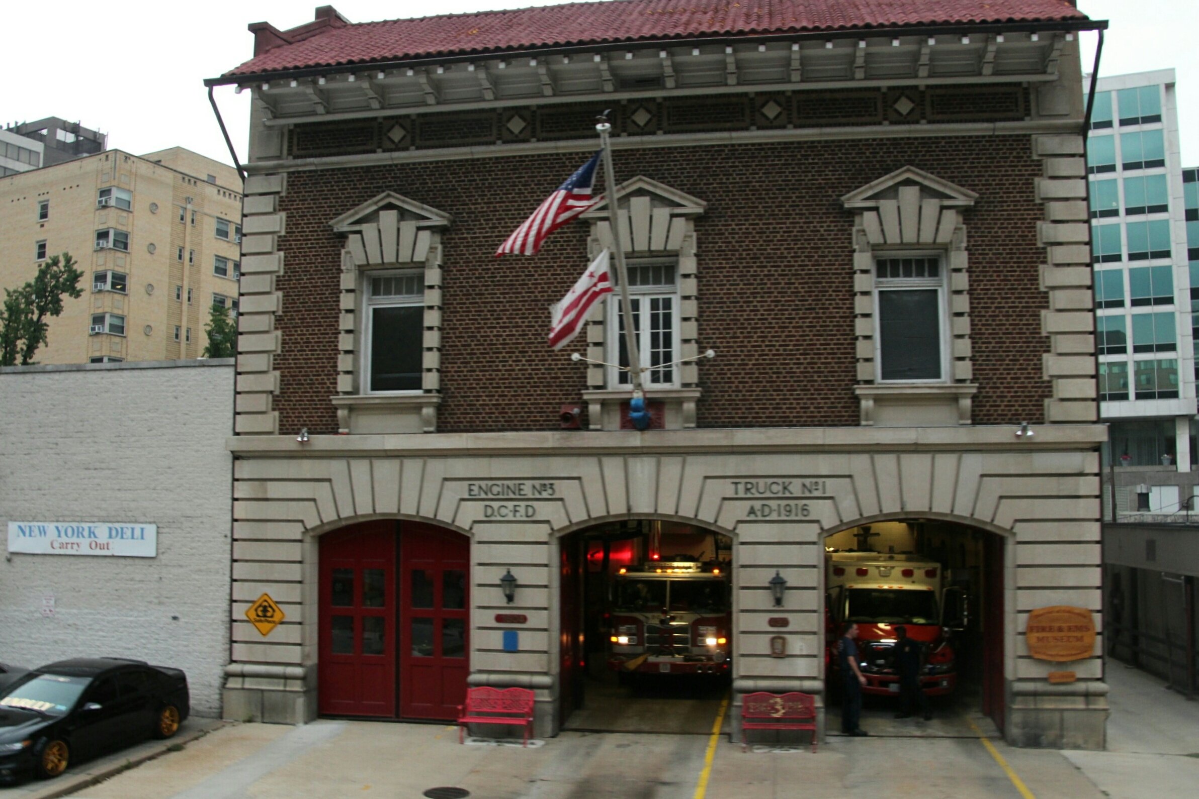 Front view of D.C. Fire and EMS Museum